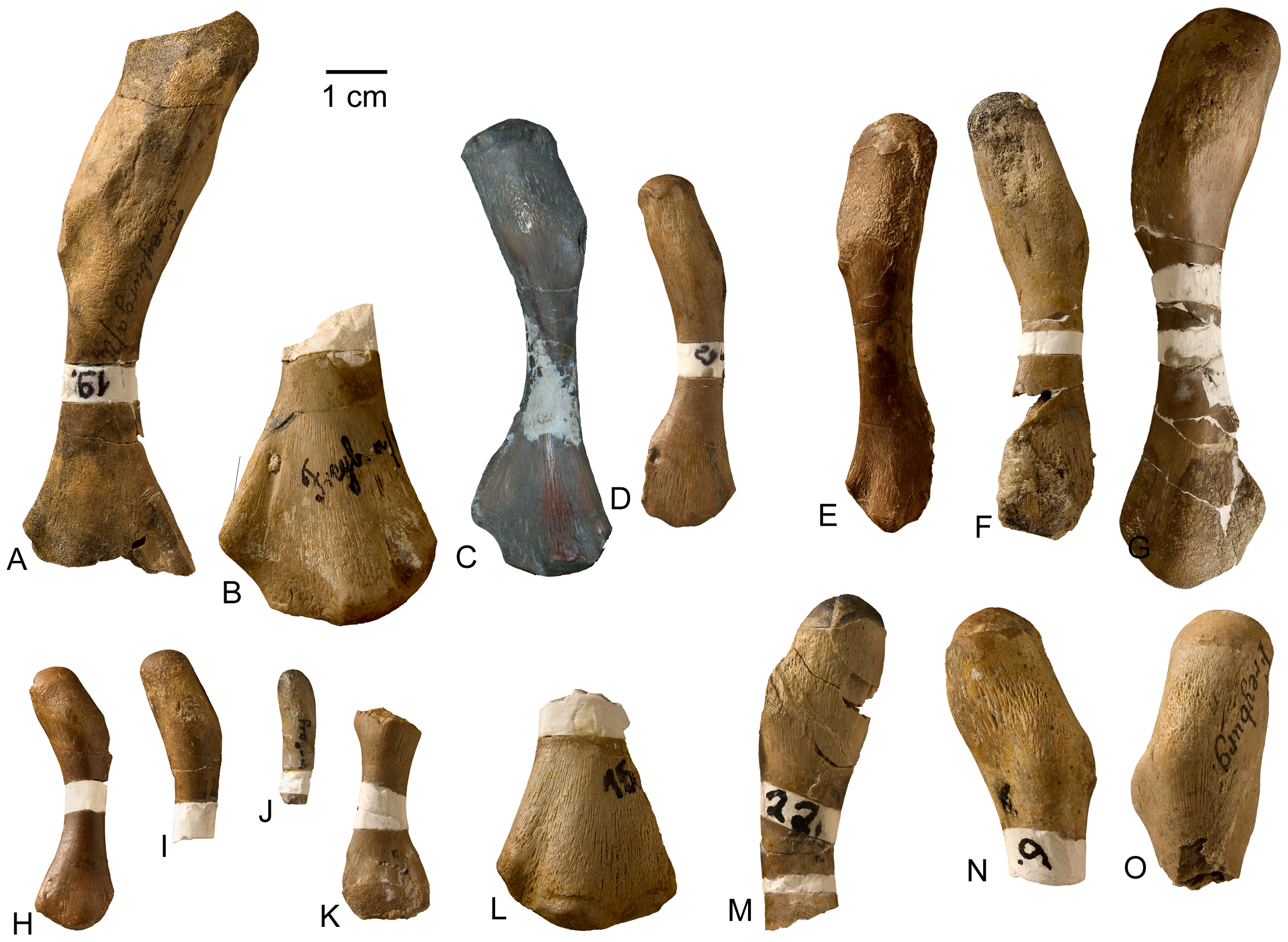 Cymatosaurus humeri morphotype I and II, and unassigned "pachypleurosaur" humeri showing histotype A bone tissue from Freyburg and Winterswijk localities in dorsal view.